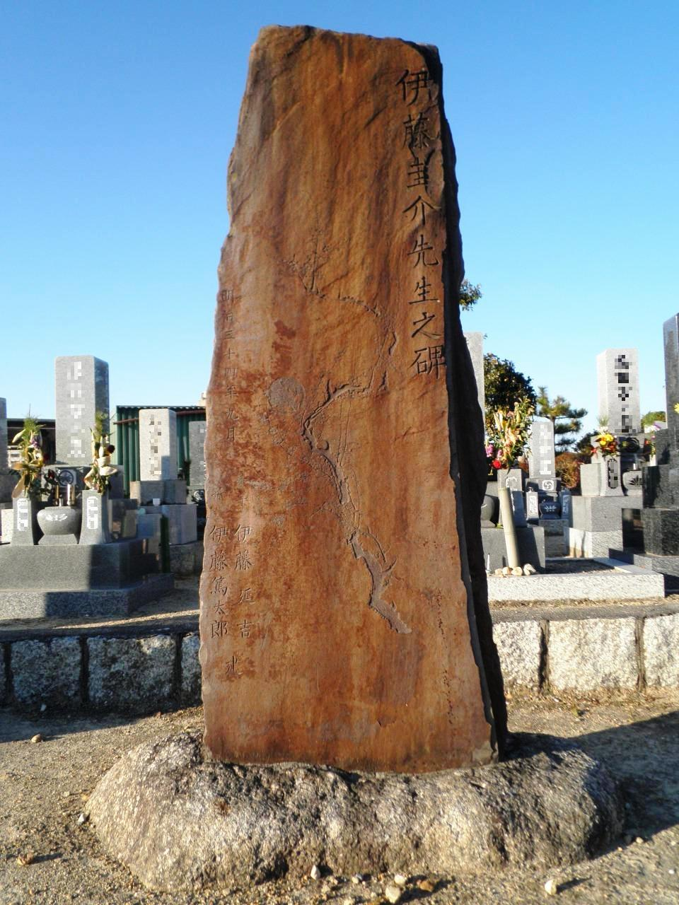 Monument of Keisuke Ito in Nagoya, Aichi.